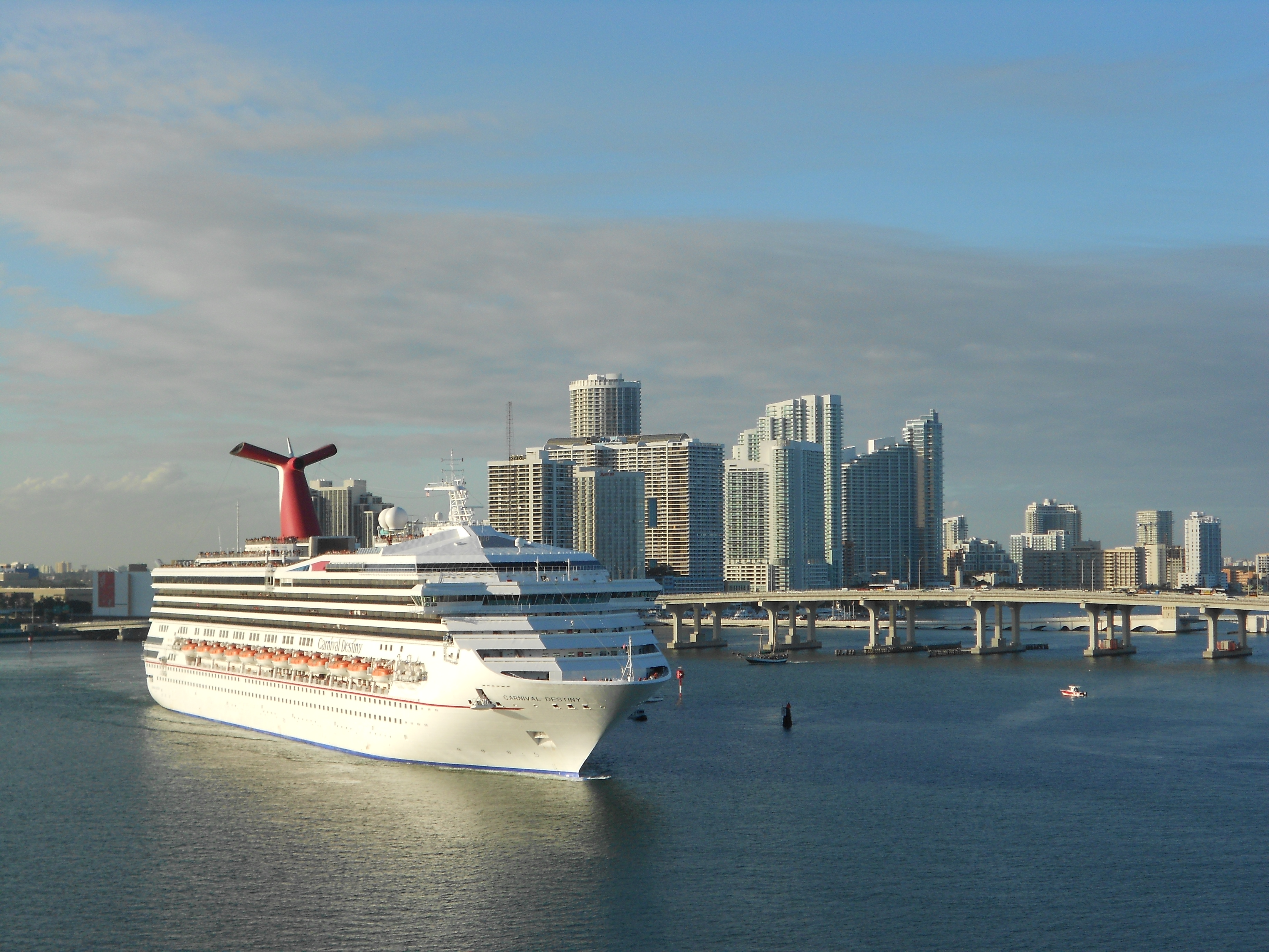 Carnival Destiny leaving the port of Miami